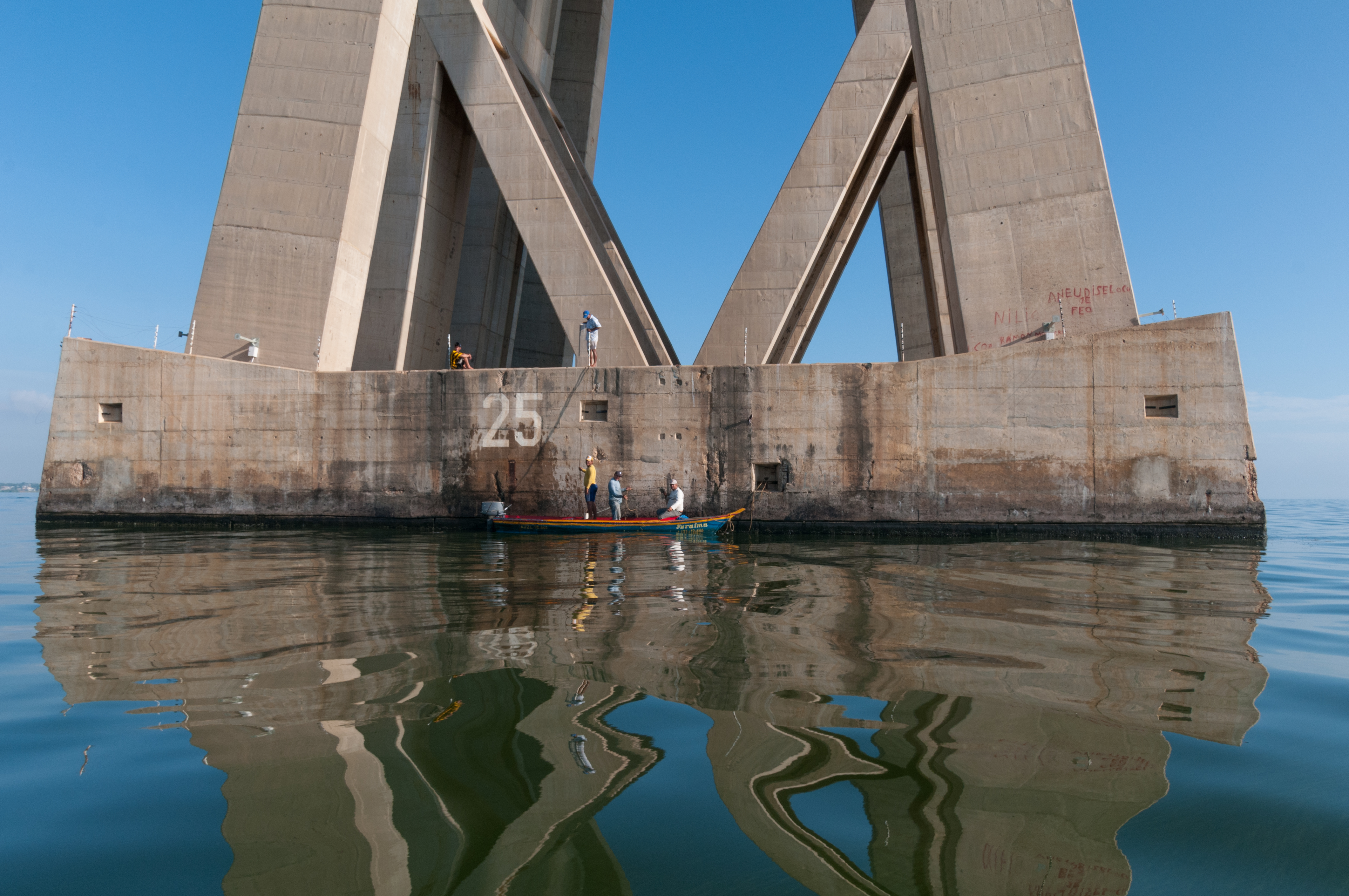 Fishermen pile Bridge over Lake Maracaibo